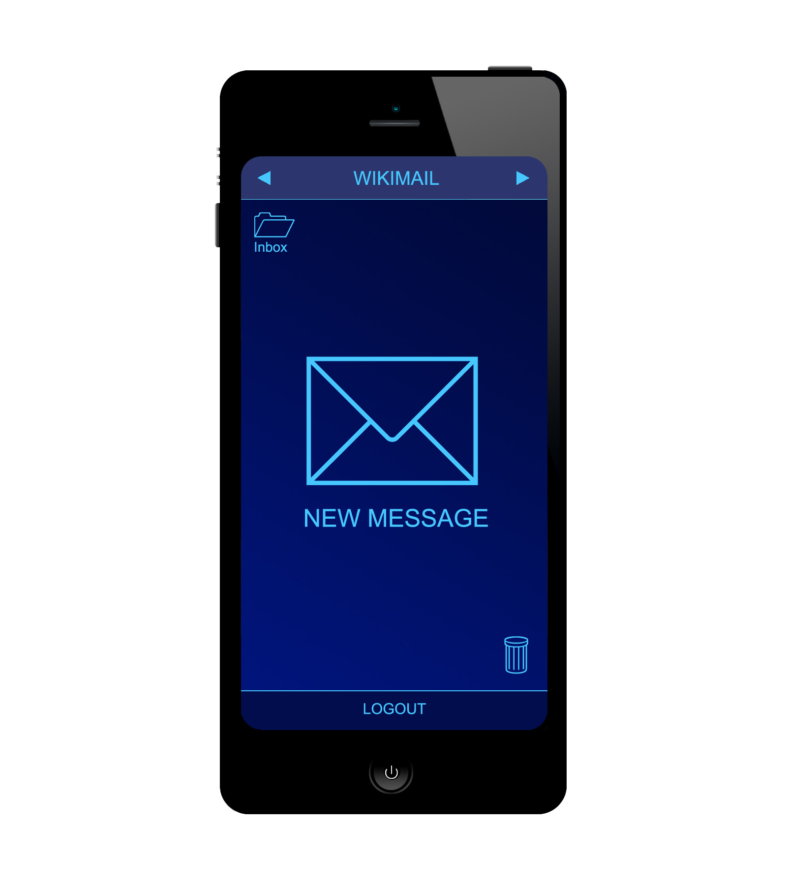 Illustration of a generic design smartphone, circa 2017. Educational purpose: to illustrate terms such as mobile phone, wireless technology, digital communication etc. Artwork by SimonKirby. This image was created for Wikimedia Commons and is released under cc-by-sa 2.0. The author agrees that Commons is not censored and that international wikimedia projects have the right to use this image under the terms stipulated by the license.